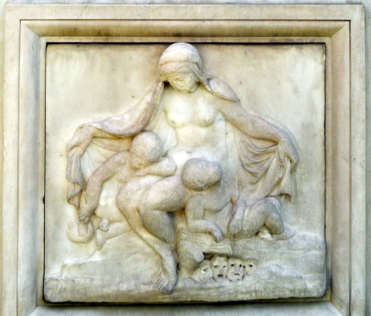 Tomstone of Asmus Jacob Carstens, detail; Cimeterio acattolico, Rome